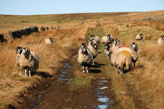 A herd of sheep Ewes on a lane across Brownside Moss.